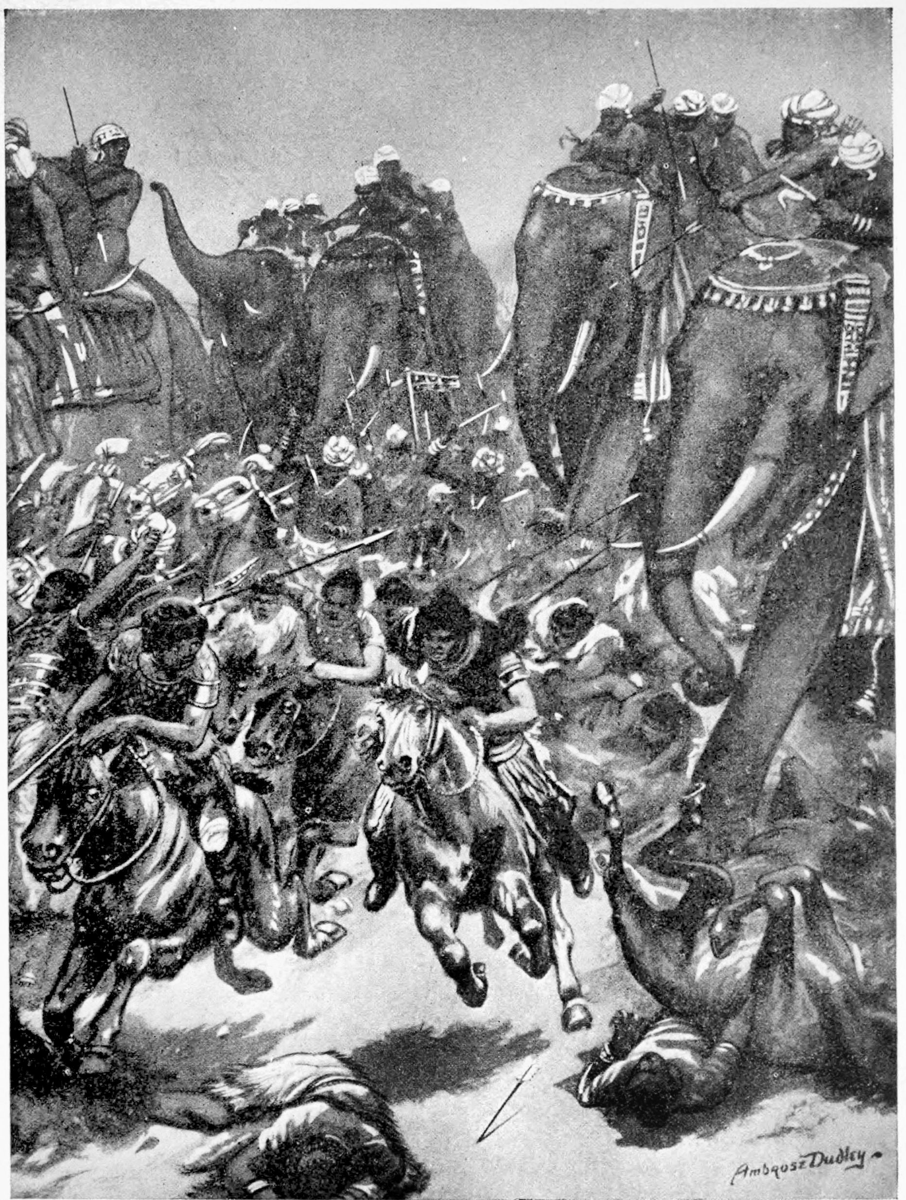 The defeat of the Ephalites, or White Huns A.D. 528. From Hutchinson's story of the nations, containing the Egyptians, the Chinese, India, the Babylonian nation, the Hittites, the Assyrians, the Phoenicians and the Carthaginians, the Phrygians, the Lydians, and other nations of Asia Minor.